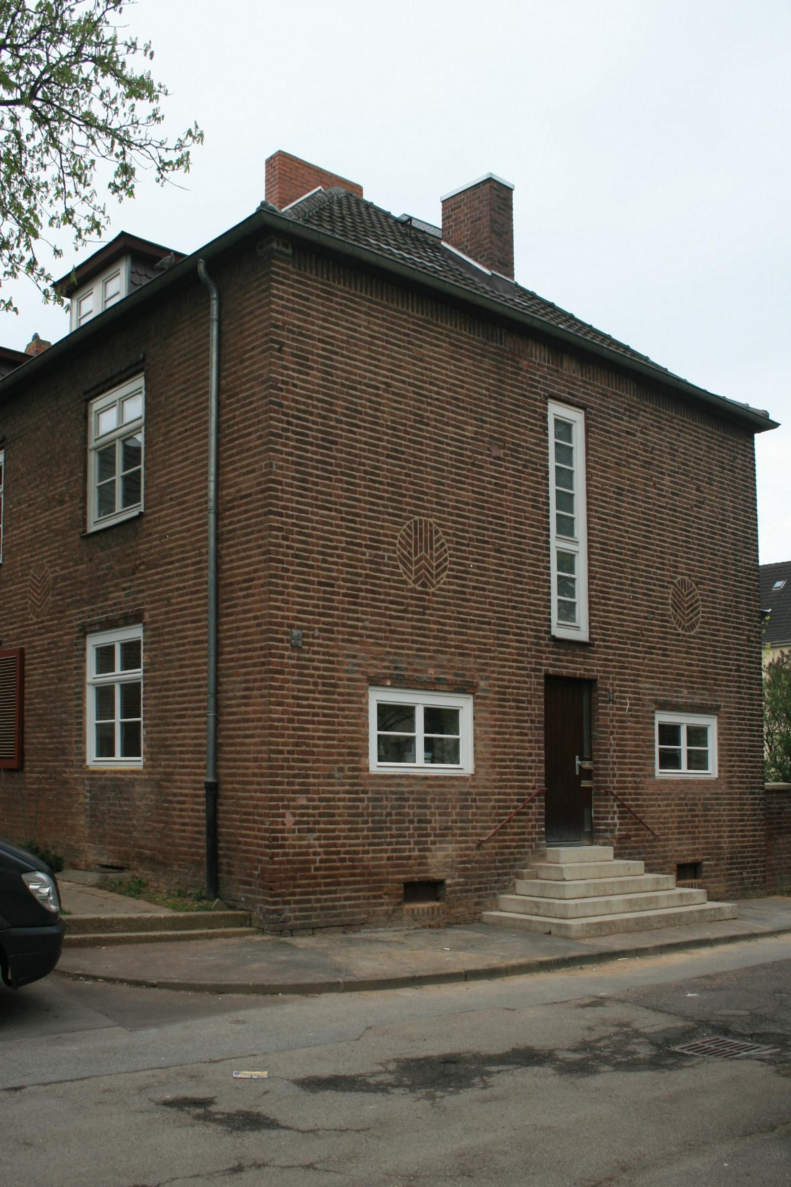 Cultural heritage monument No. 1/038 in Düren